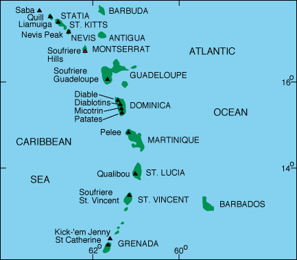 The Caribbean Islands (West Indies)